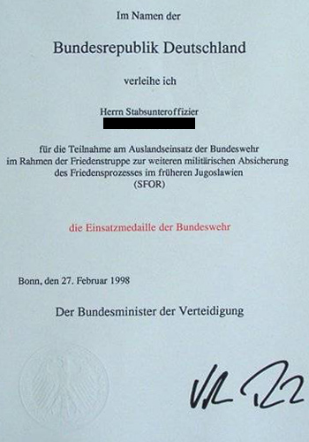 Certificate for the award of the "German Armed Forces Service Medal" "for participation in the foreign deployment of the armed forces as part of the peacekeeping force to further military security of the peace process in the former Yugoslavia (SFOR)"